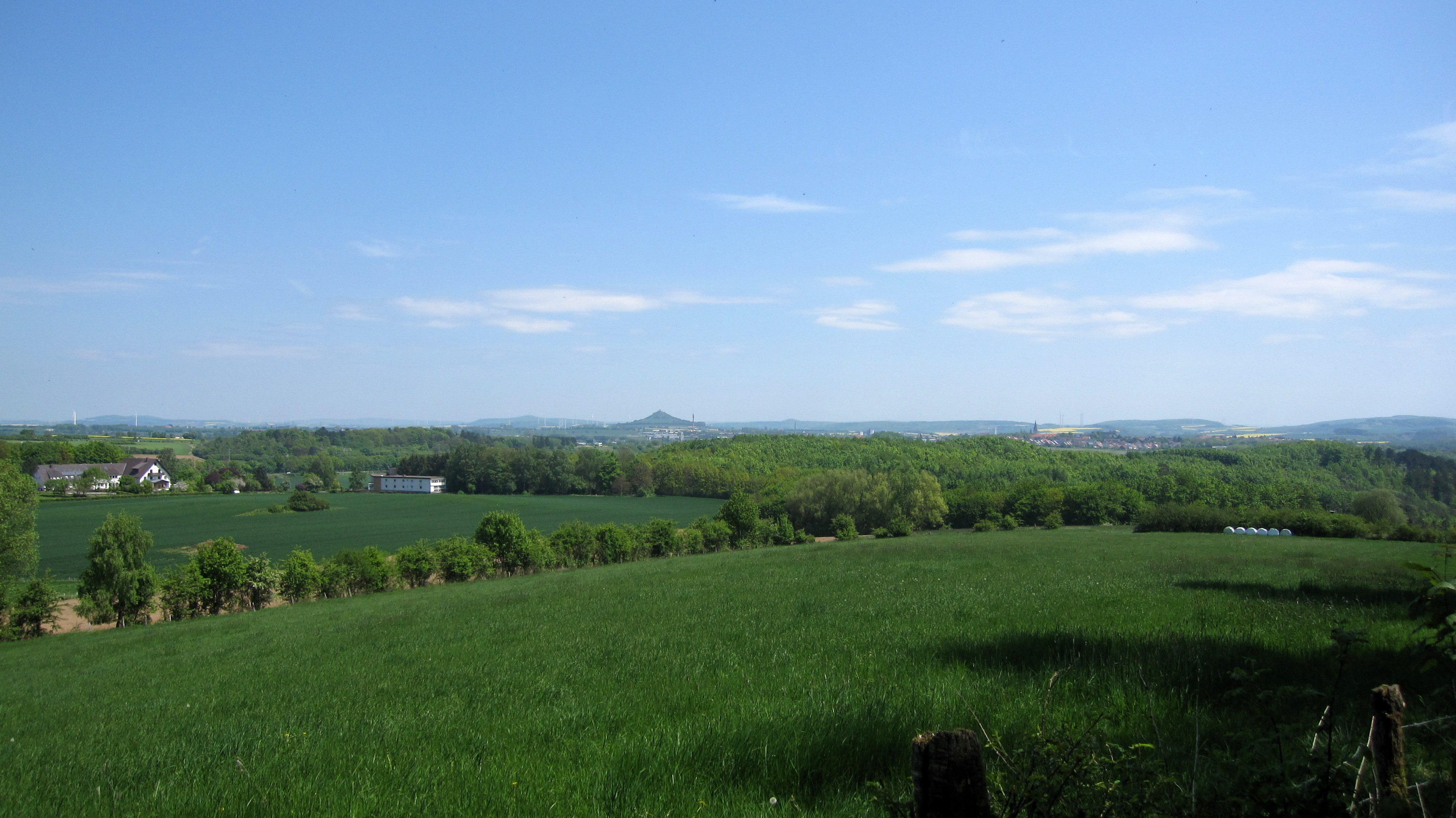 East view from Heinberg in direction of Desenberg and Warburg (City). Photograph regarding the 250th anniversary of the Battle of Warburg in 2010. The battle was fought on 31 July 1760 during the Seven Years' War at the Heinberg near todays constituent community Warburg-Ossendorf.